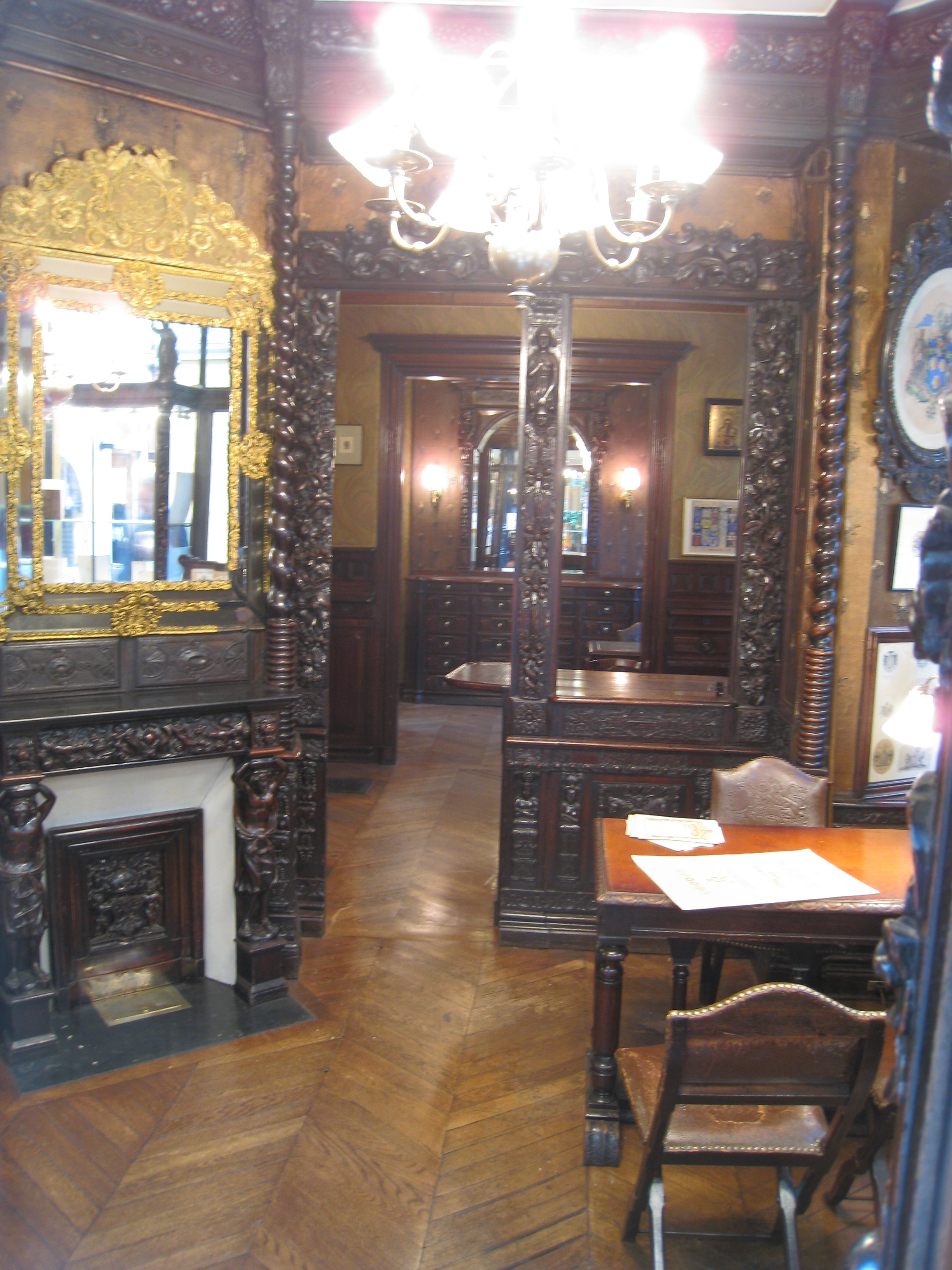 The Shop Stern engraver in Paris since 1836